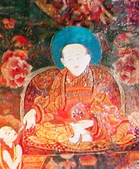 Detail from a 2005 photograph of a mural at Samye Monastery, Tibet, depicting Lozang Gyatso, Fifth Dalai Lama with his Chagdzo (Principal attendant) Sonam Rapten (bsod nams rab brtan) and his devotee Gushri Khan, the Chief of the Oirat Mongols. This detail shows only the figure of Sonam Rapten who in the mural is seated on the left of the main figure of the 5th Dalai Lama.